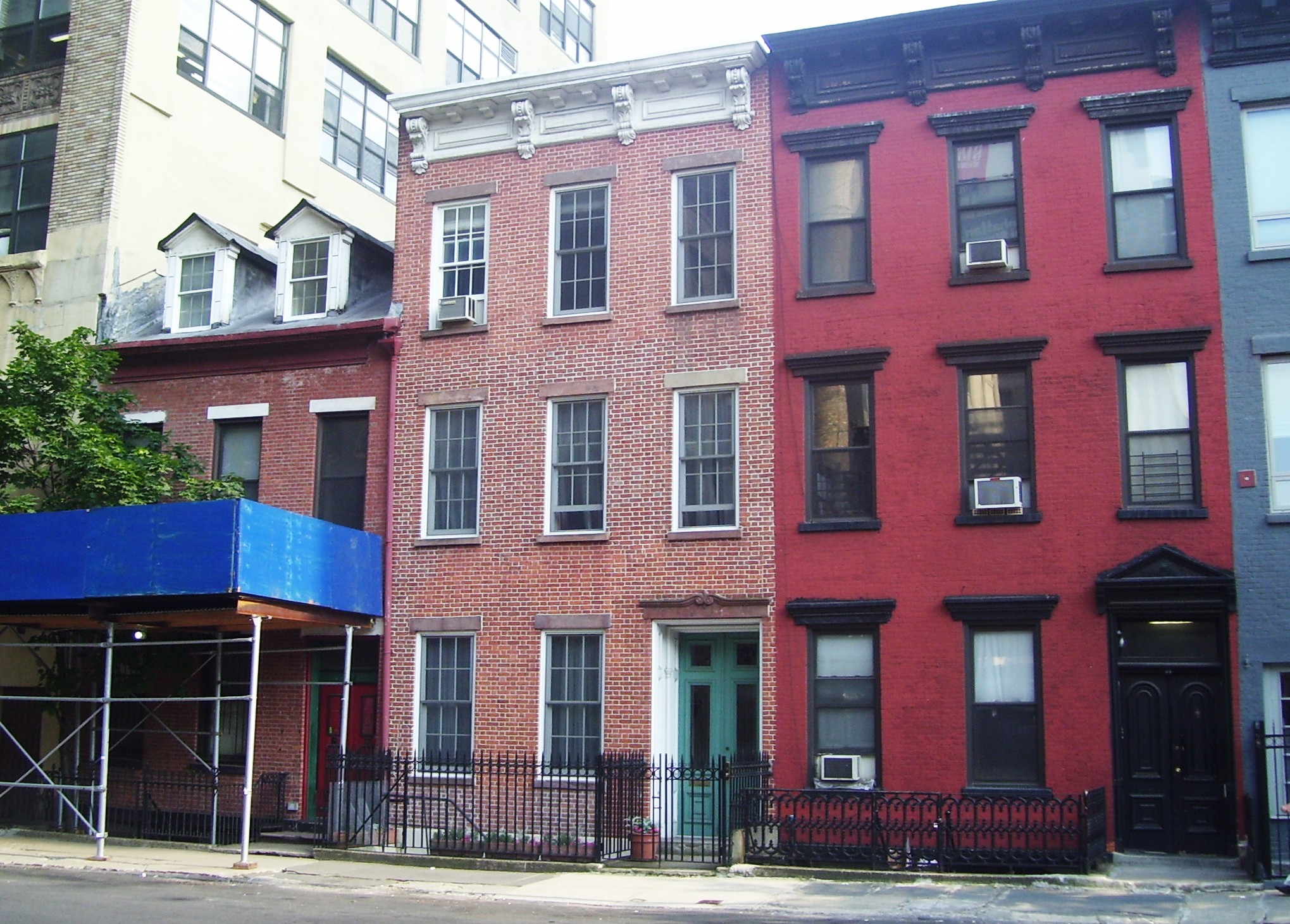 32 (left), 34 (center) and 36 (right) Dominick Street between Hudson and Varick Streets in the Hudson Square neighborhood of Manhattan, New York City were built c.1826 as part of twelve Federal style row houses from #28 - 50. Of the four that remain (#32-38), #32 is the best preserved, and #34 and #36 have Italianate alterations. These three were designated landmarks by the New York City Landmarks Preservation Commission on March 27, 2012. (Sources: [1], [2], [3] NYCLPC Designation Reports)